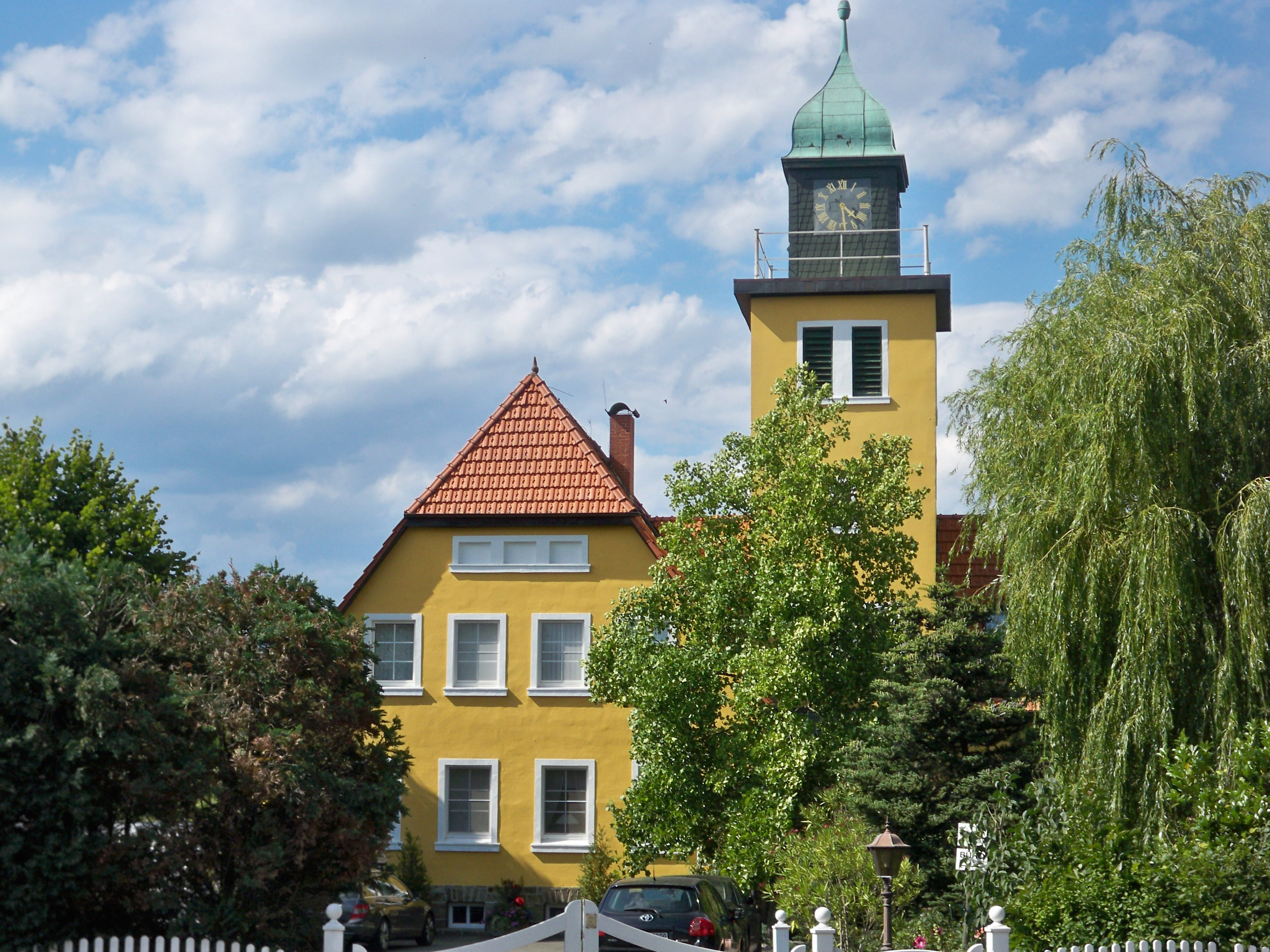 Hoitlingen, Lower Saxony, Former school building